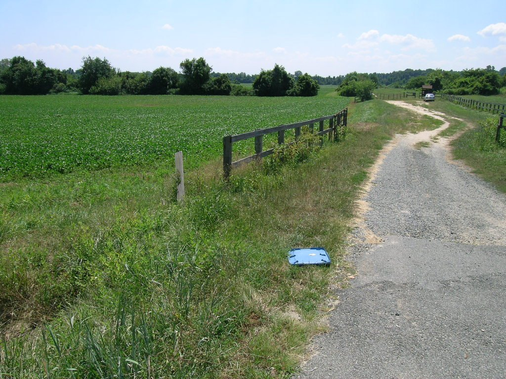 An image of the site of the new State Communications Tower at Indian Creek in Benedict